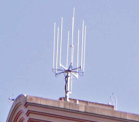 a cell station antenna of PHS operator Willcom with 8 elements